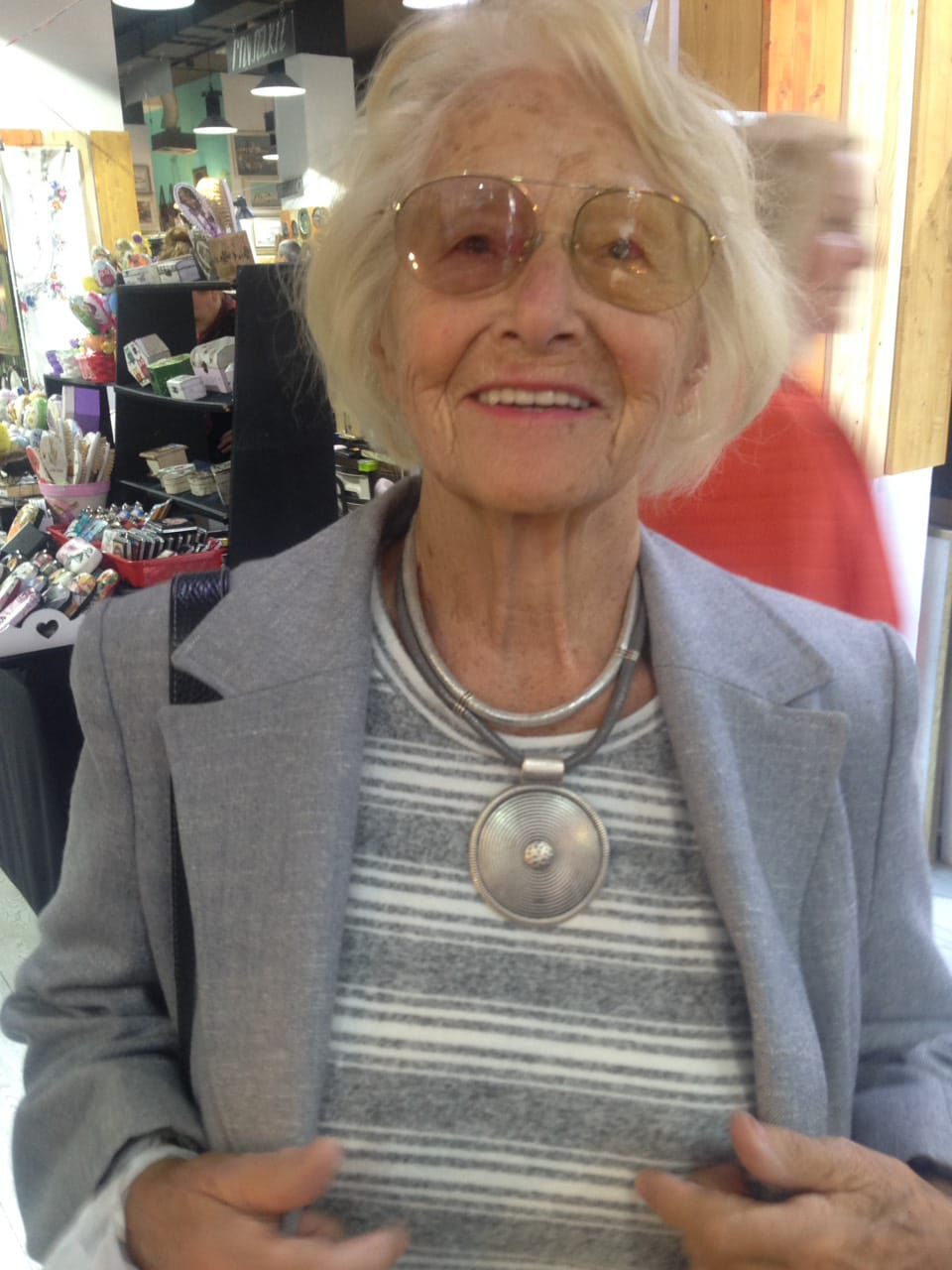 Renata Ulmanski in 2019. Српски (ћирилица): Рената Улмански 2019.